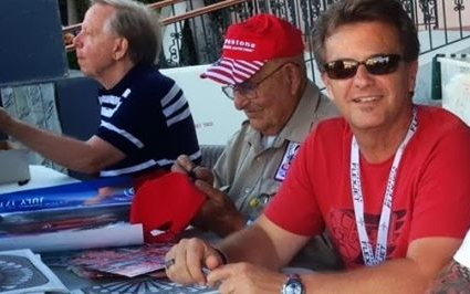 Fanshaw Signing Autographs at TMPCC Car Show, 2013